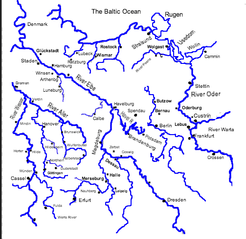 A map that gives more insight into Germany on the western side of the Elbe.